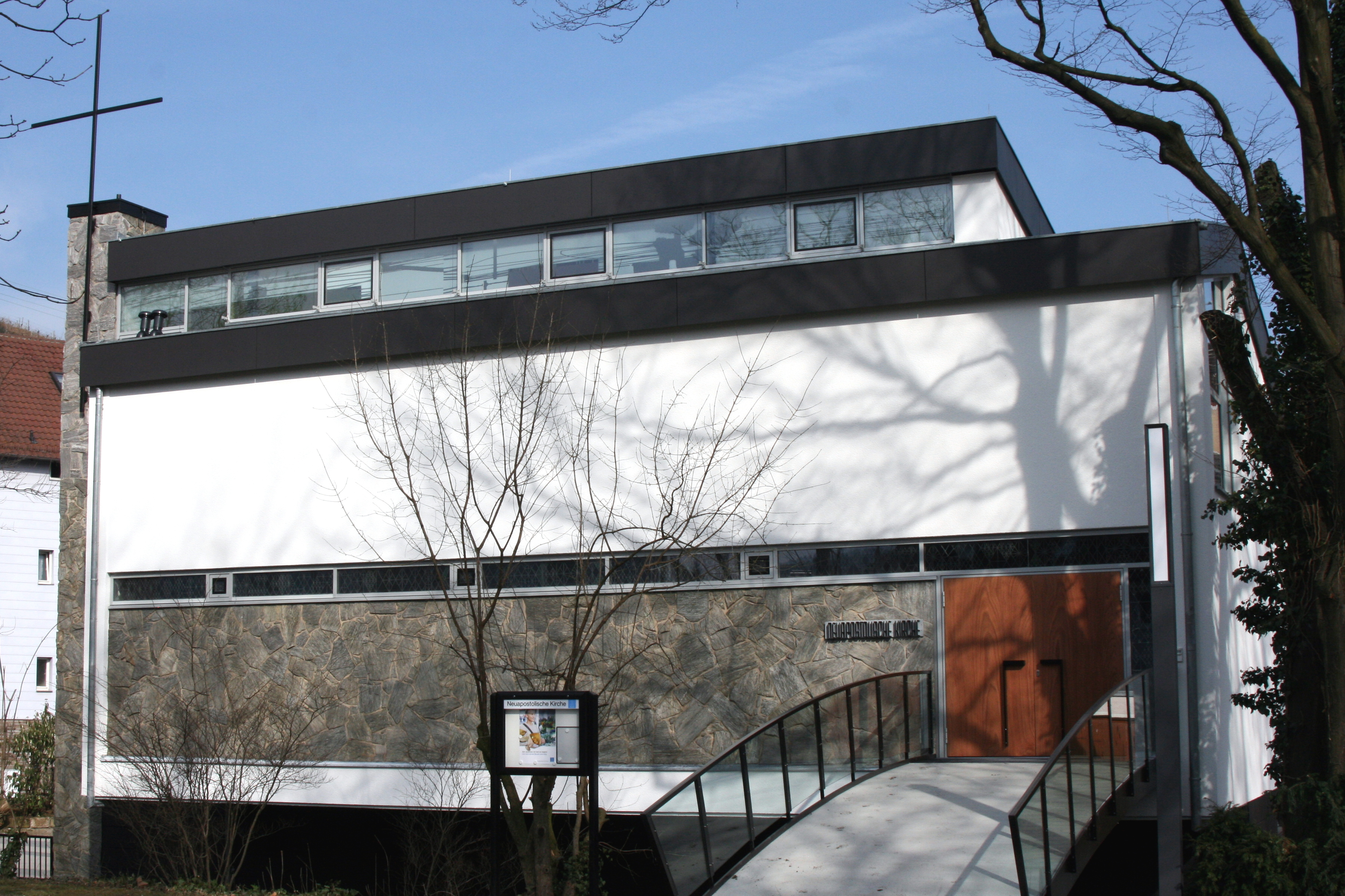 New Apostolic Church in Weinsberg